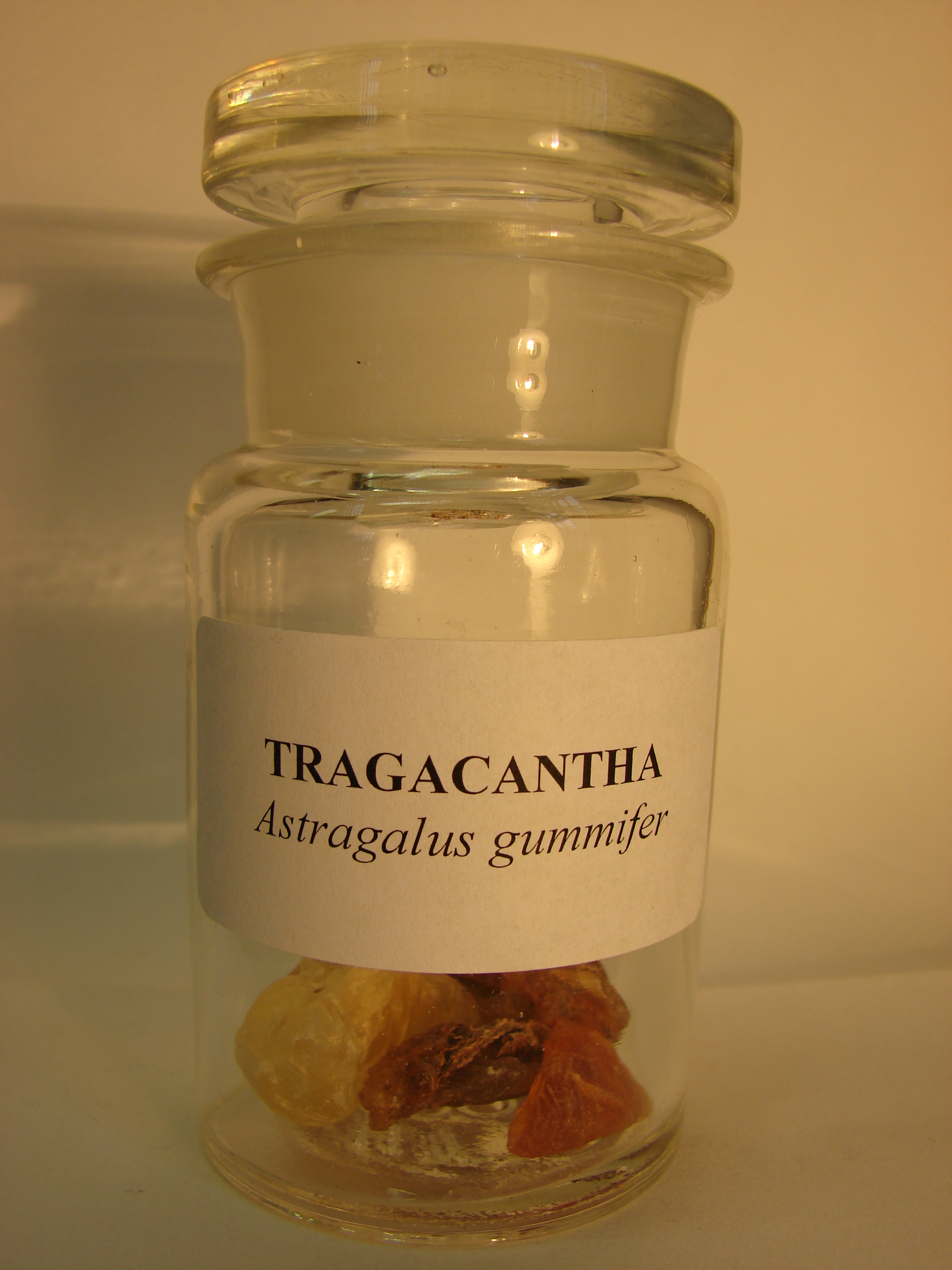 Tragacantha, Astragalus gummifer